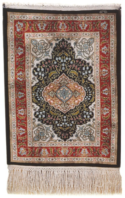 Silk Hereke rug. Over 1200 knots per square inch.